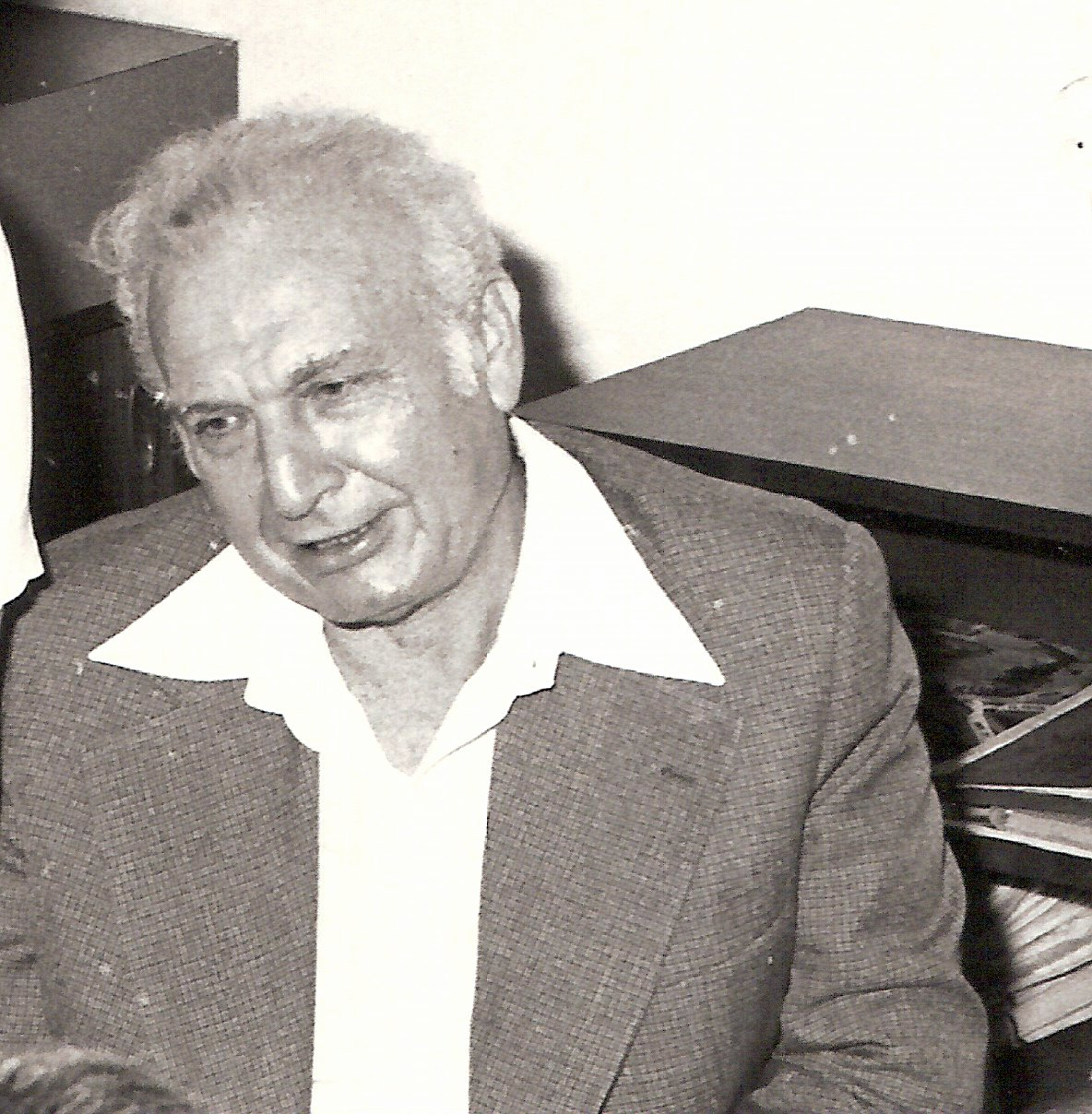 Ephraim Katzir, President of Israel 1973-1978